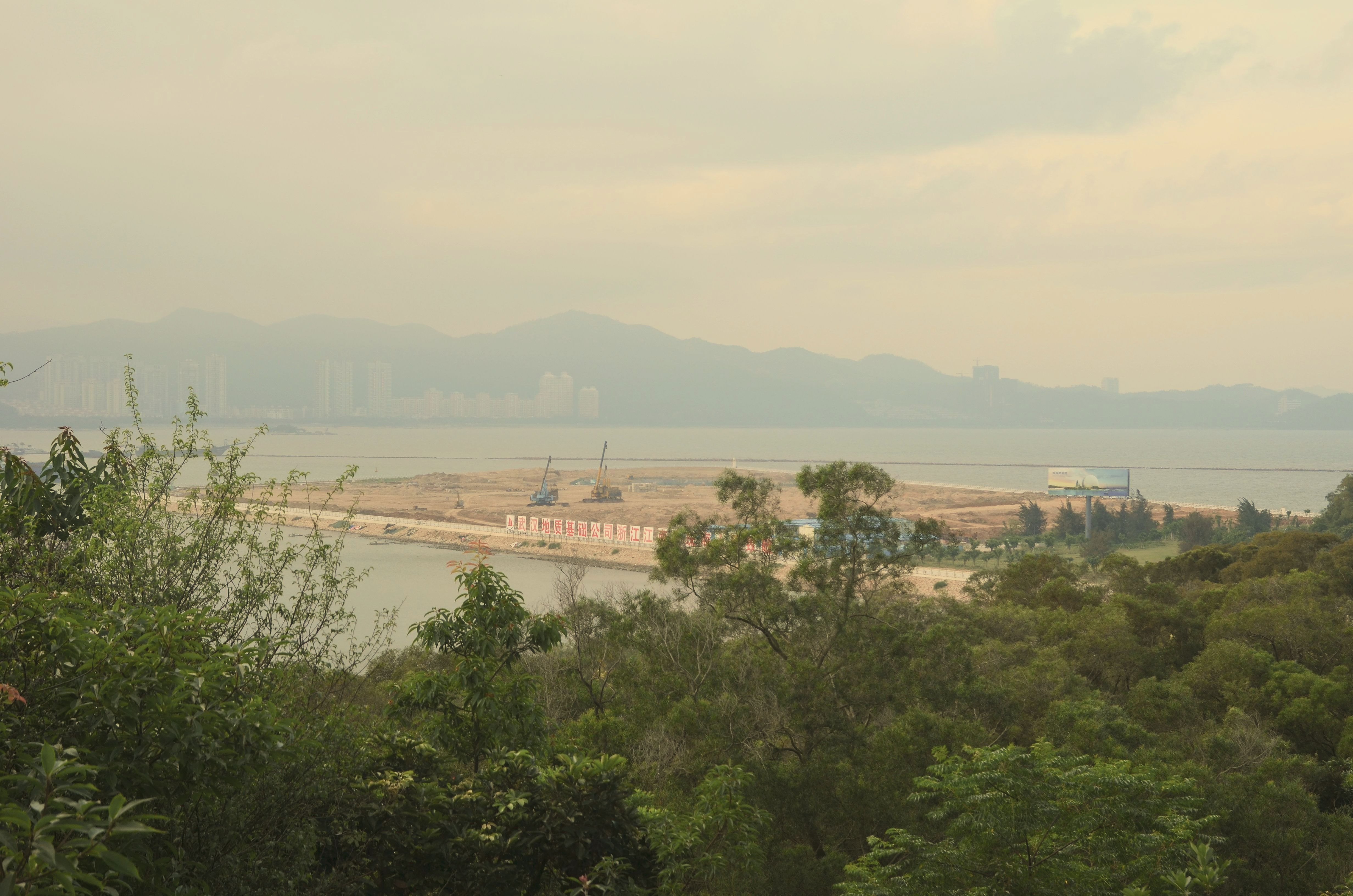 Area of construction of the futur Zhuhai Opera on Yeli Island, in may 2012.